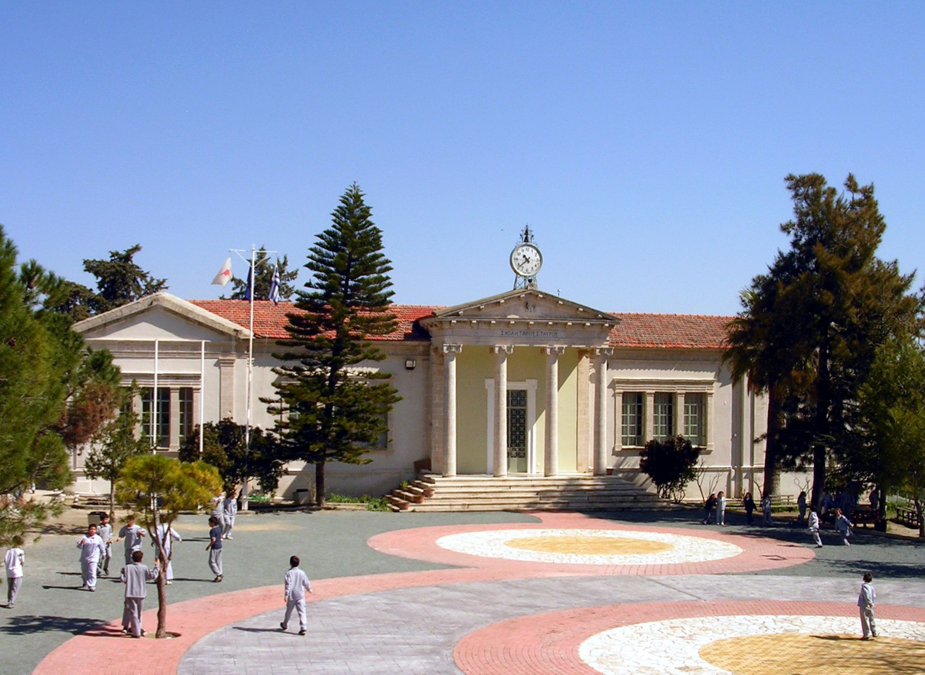 Lefkara Primary School, Cyprus. Ιnscription under the clock : " 1920 - HOLY CROSS SCHOOL "